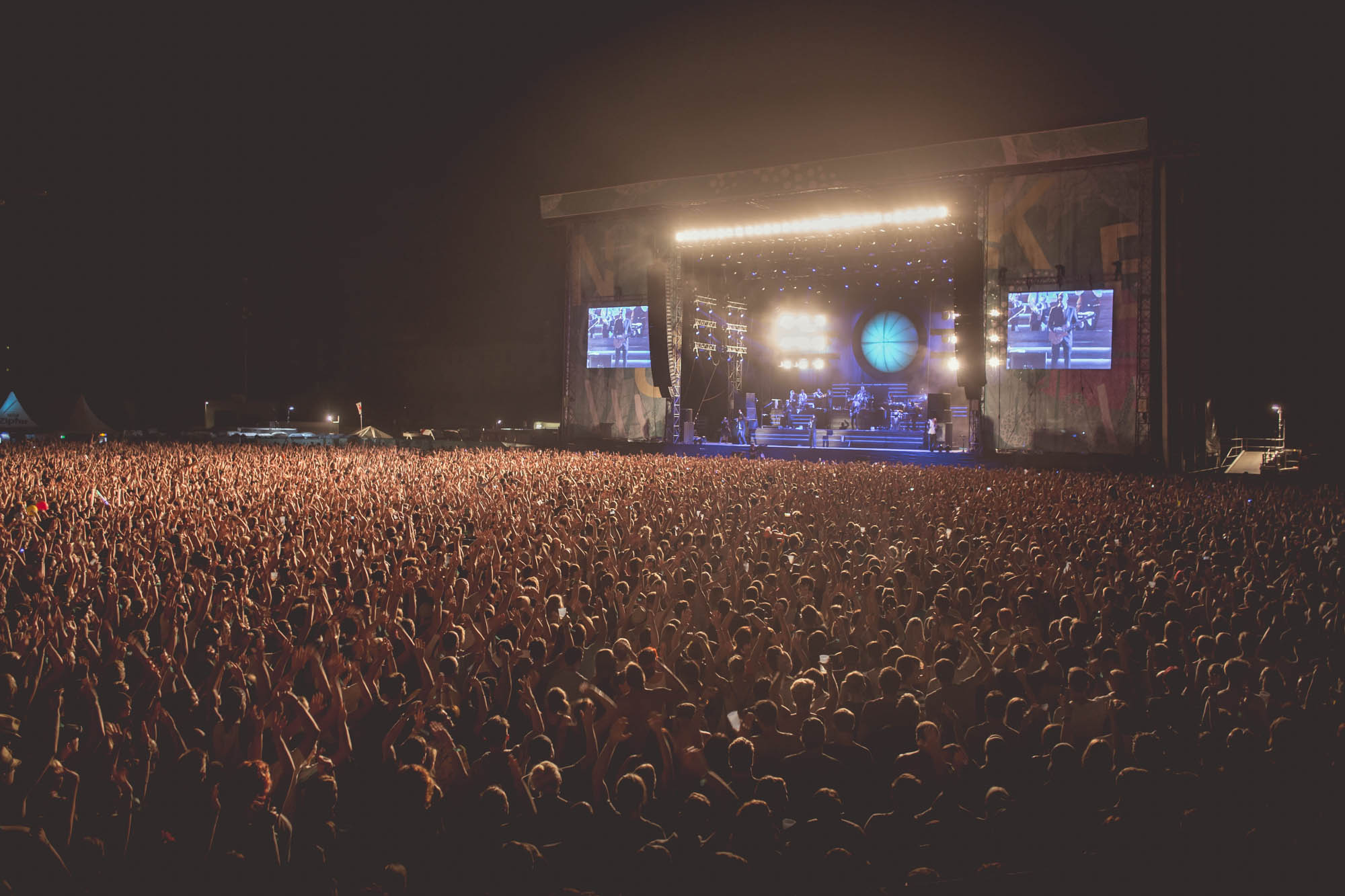 Nuke Festival